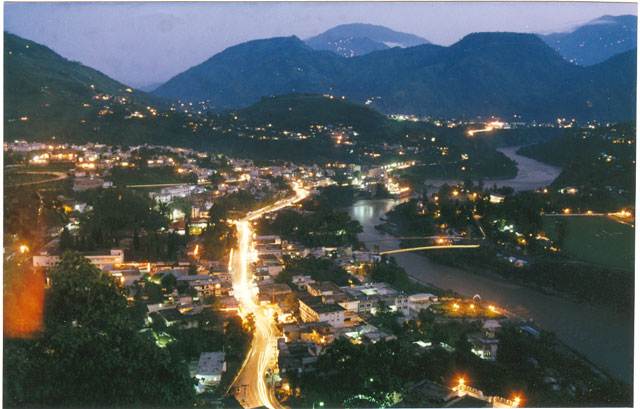 Muzaffarabad at night.